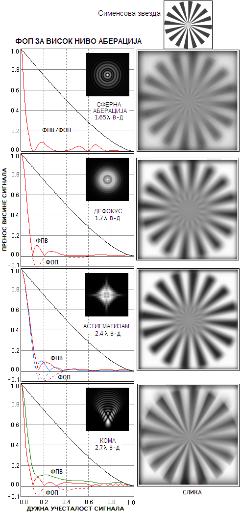 Примери функције оптичког преноса за висок ниво аберација